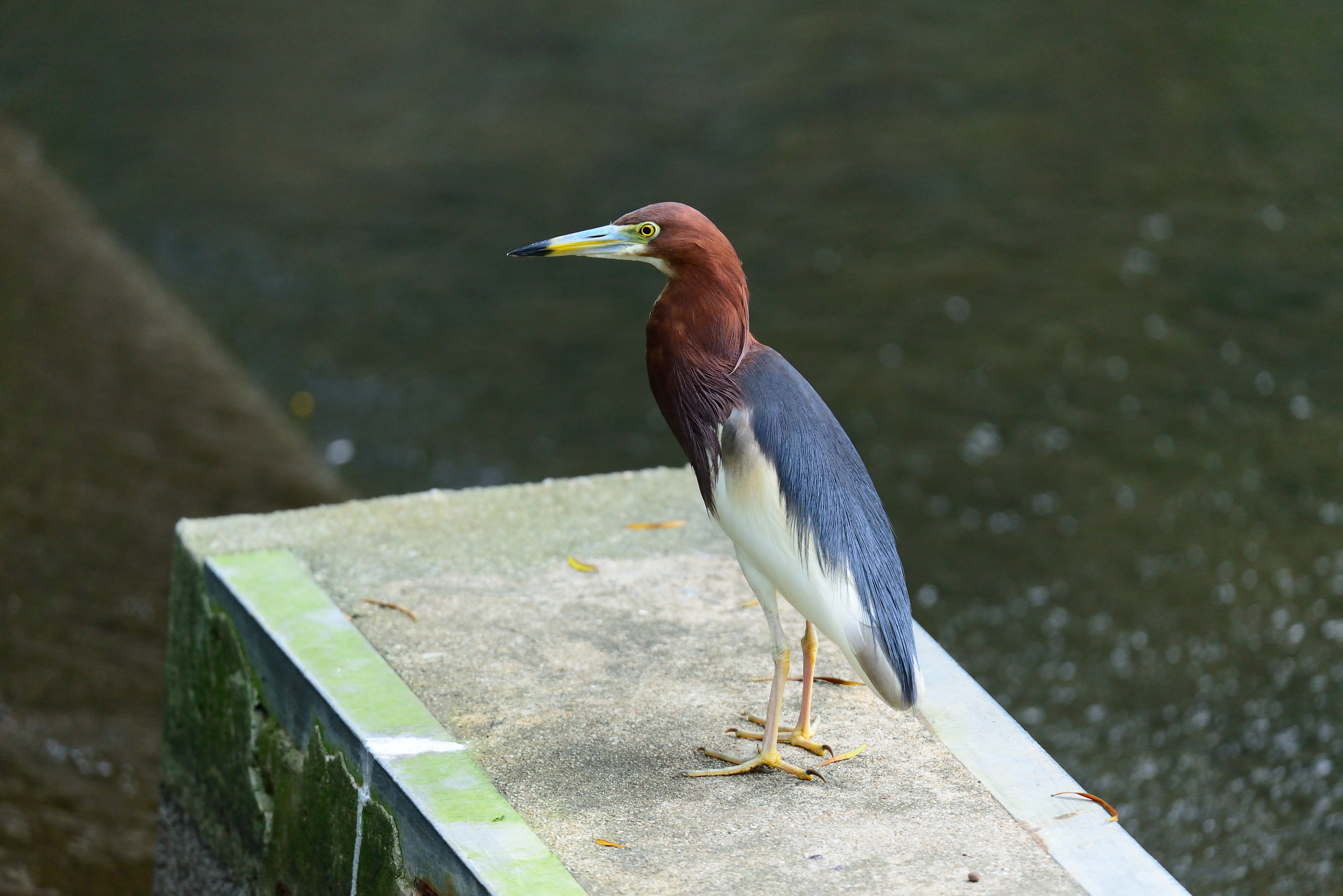 Chinese pond heron adult in breeding plumage